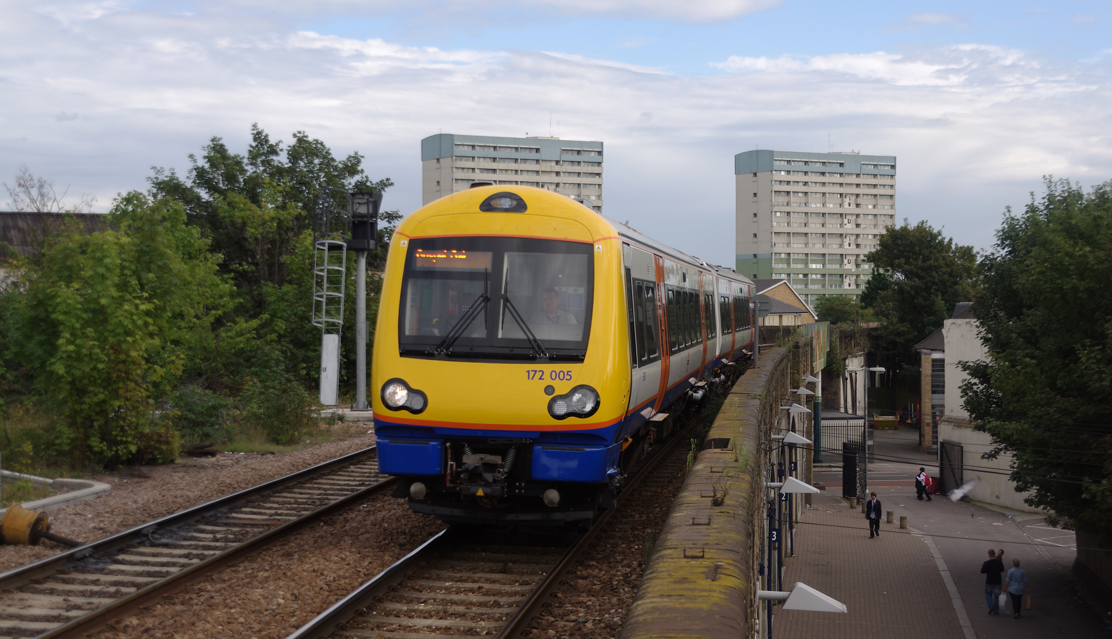 London Overground Turbostar DMU 170005 approaches Leytonstone High Road with a service from Barking to Gospel Oak.